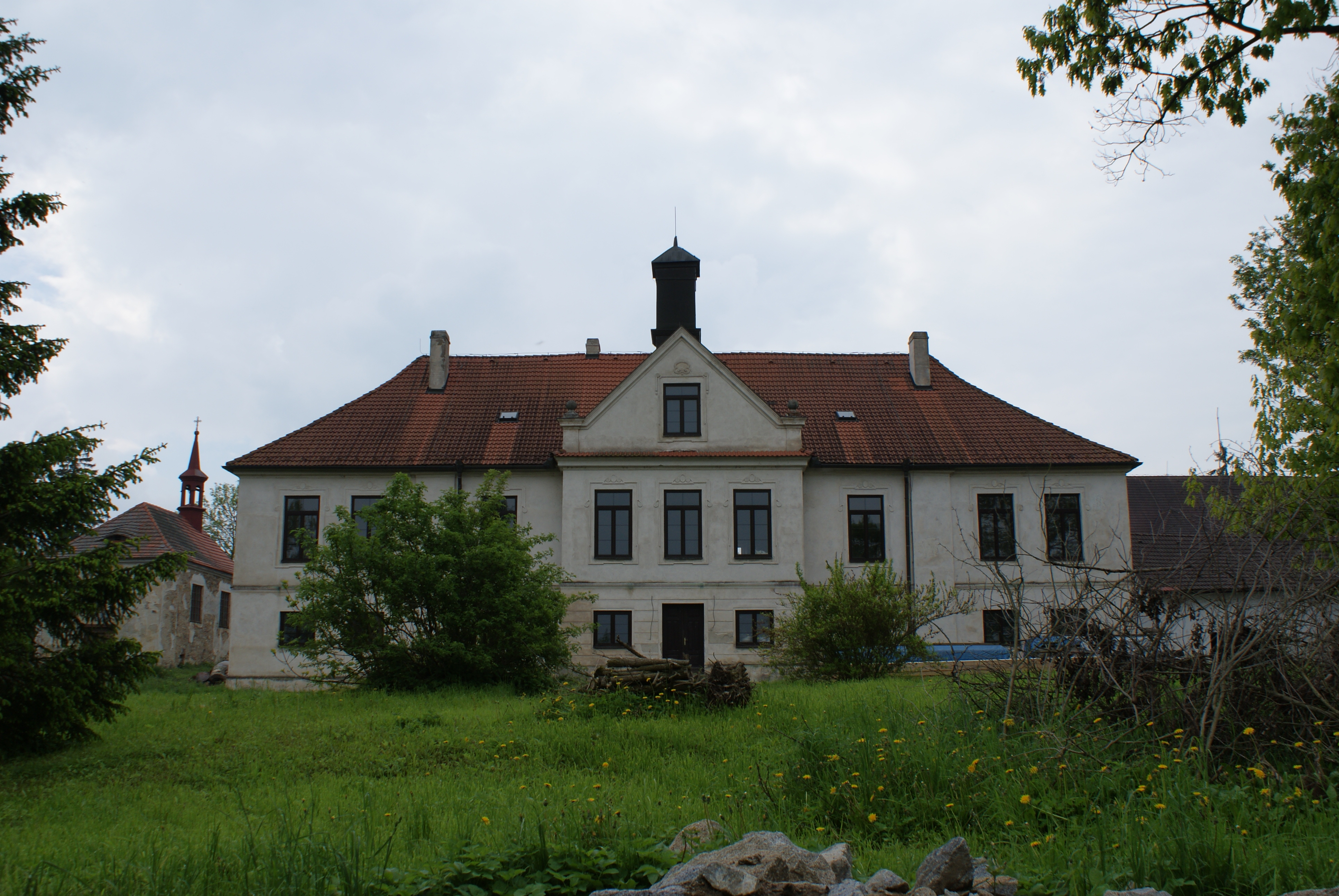 Strážovice, a village in Písek district, Czech Republic, a manor house.